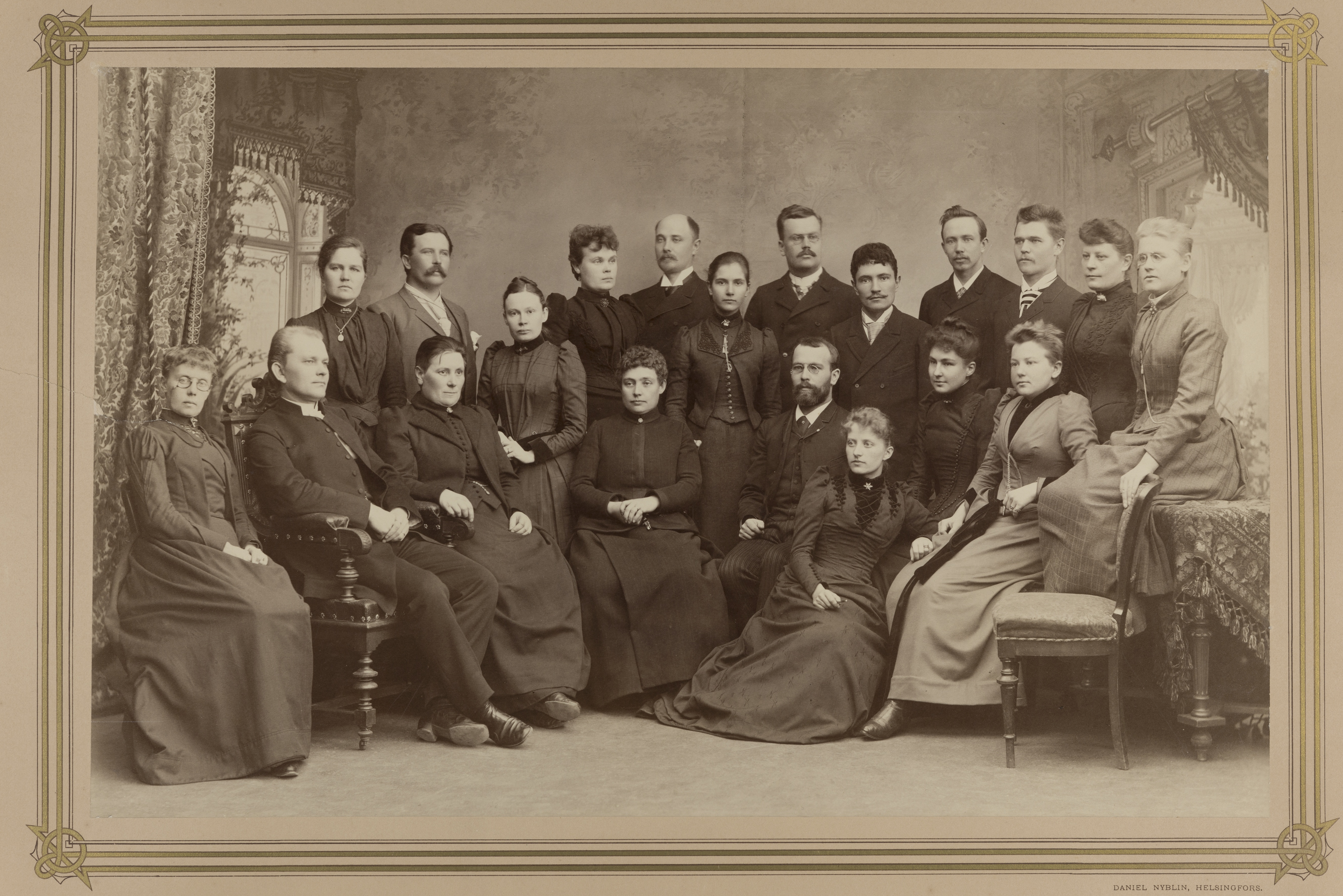 standing on the left: 1. Maikki Vehanen, 2. Ivar Vilskman, 3. Emma Hirn, 4. Fanny Pajula, 5. Kaarlo Kerppola, 6. Ester Elfving (Anna Boxström's name pulled over), 7. K. Seija Ahonius, 8. Don Arthur Wikström, 9. Mikael Johnsson, 10. John Vasenius, 11. Anni Jahnsson Sitting Left: 12. Fanny Tavaststjerna, 13. Alexander Auvinen, 14. Lucina Hagman, 15. Vera Hjelt, 16. Martti Cantell, 17. Fanny L. Niloni, 18. Ellen Råberg, 19. Alli Nissinen, 20th at Hilda Käkikoski